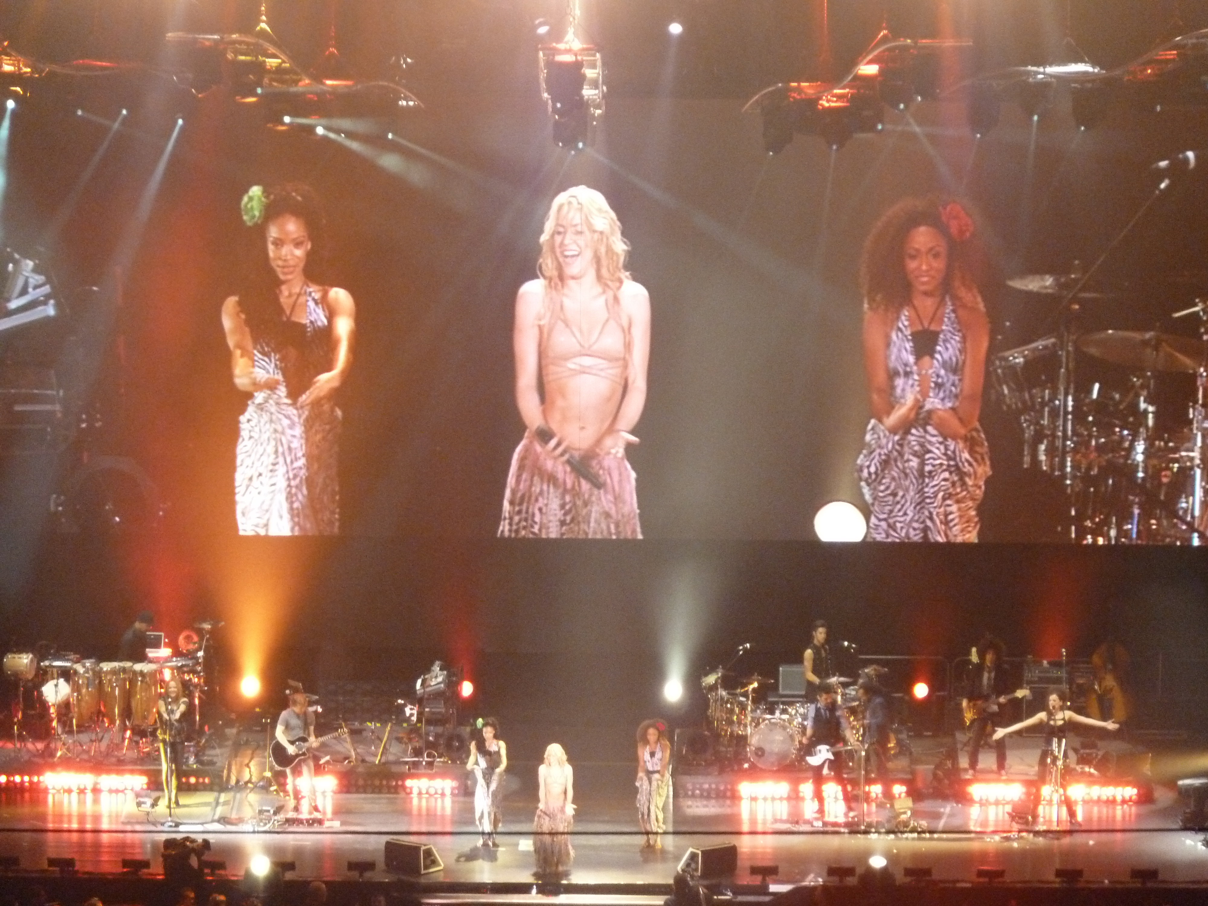 Shakira (Madrid)